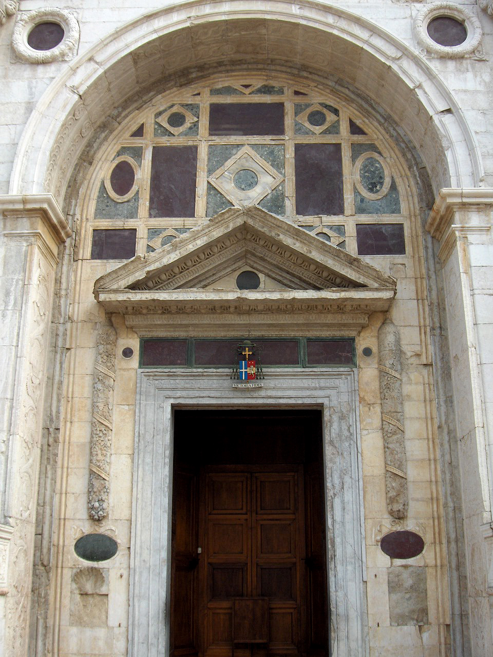 Doorway of the Malatesta Temple, flanked by Roman fasces (symbols of authority) by Leon Battista Alberti; Rimini, Italy.